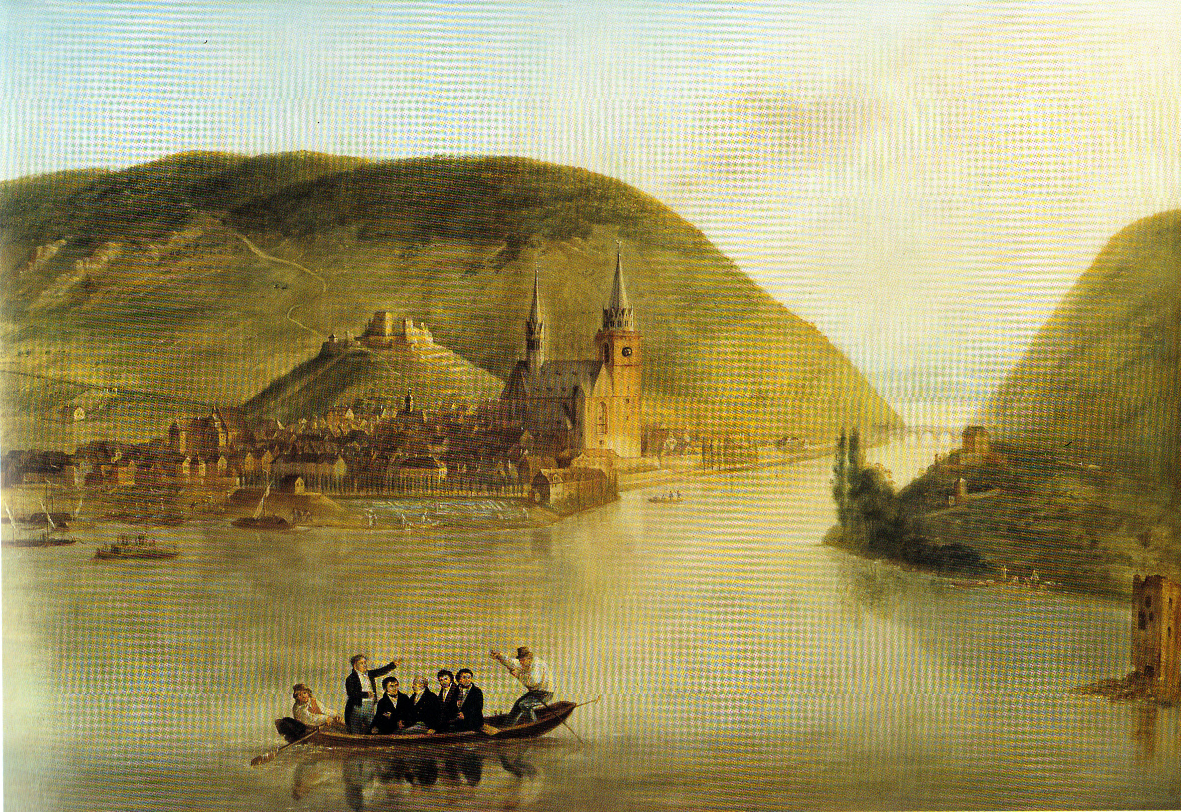 Boat scene probably by Bachta (1782-1856); c. 1840. oil on iron, 755x1055 mm